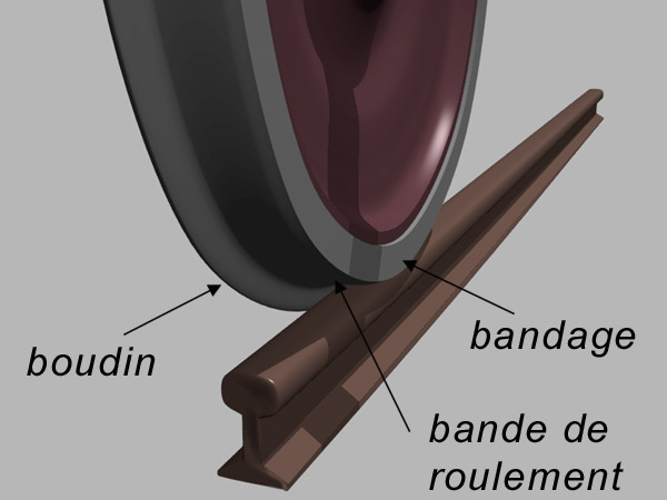 rolling stock wheel Personal 3D model